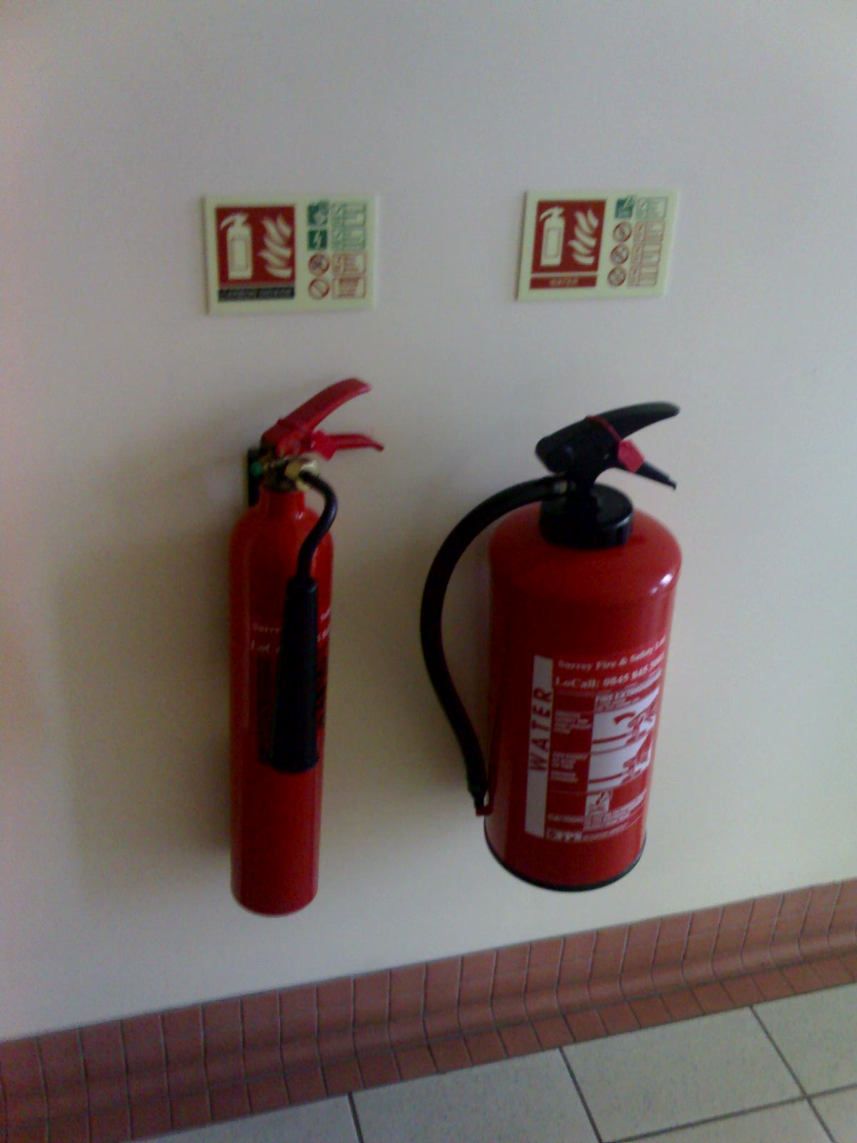 Description: United Kingdom fire extinuishers, CO2 and water, taken with a v3x mobile phone. Source: J Cohen (jckcip) Date: 26th May 2007 Location: London, UK Author: J Cohen Permission: Creative Commons Attribution